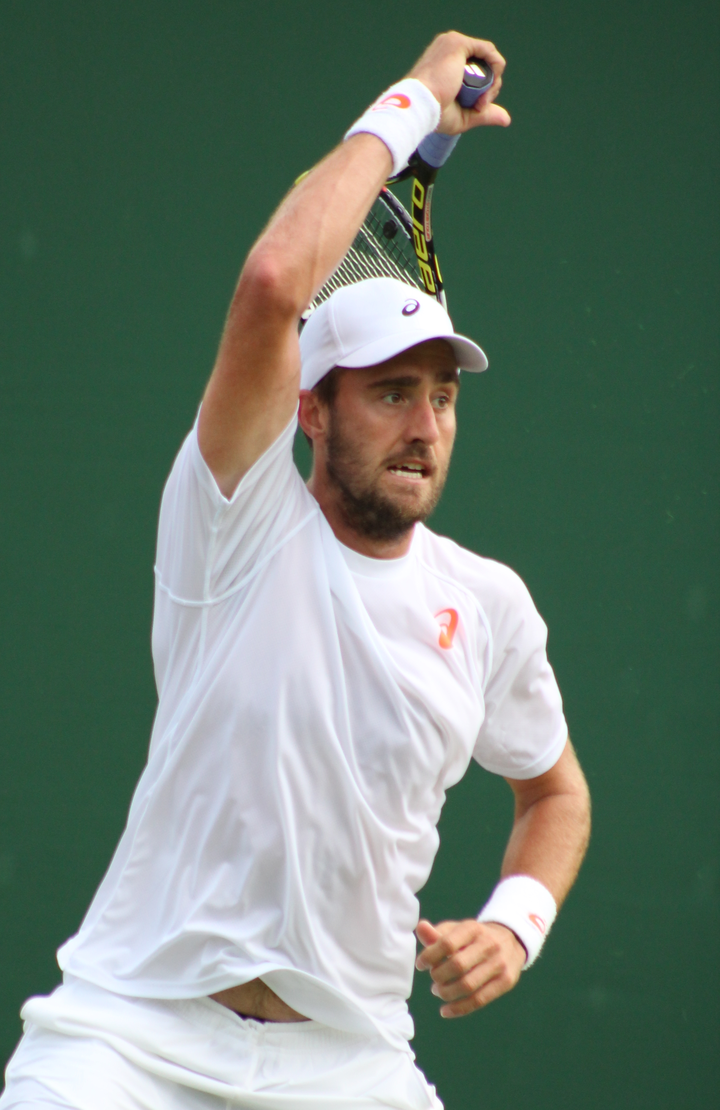 Johnson WM14 (24)